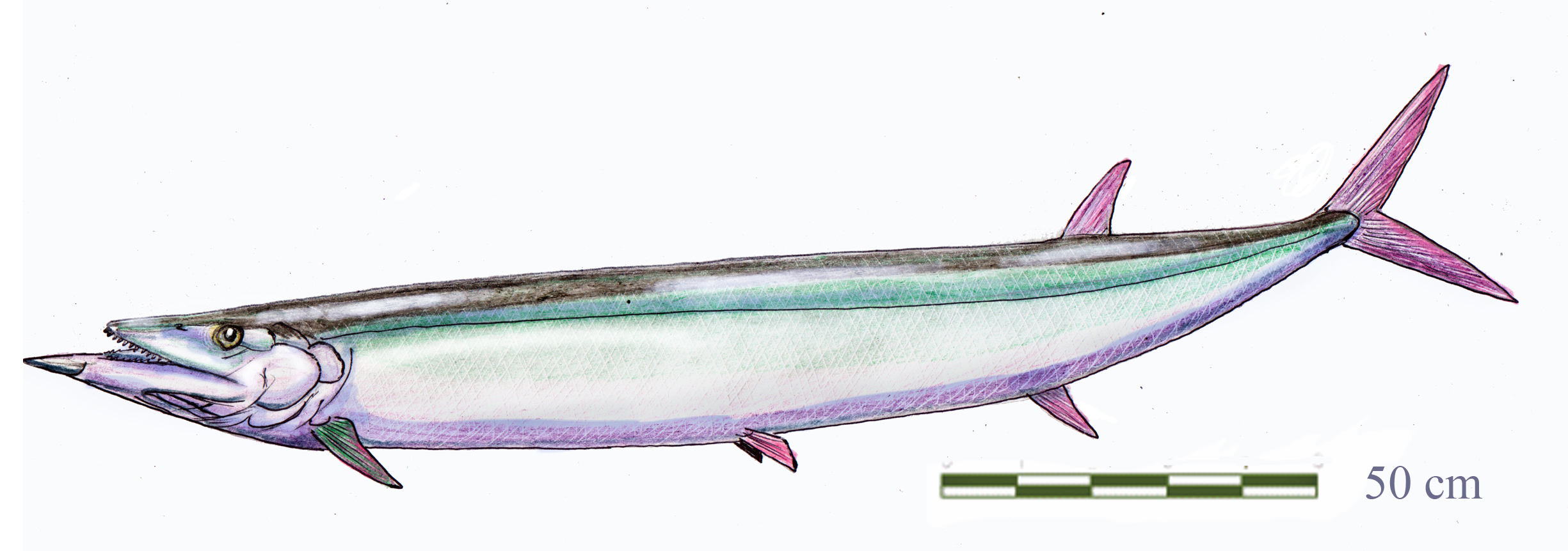 Reconstruction of Saurodon leanus an Ichthyodectid fish from the Cretaceous.